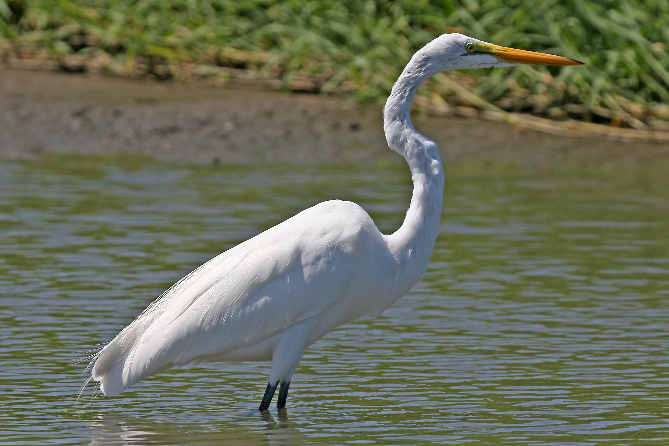 Great Egret,picture taken in Tortuguero national park, Costa Rica